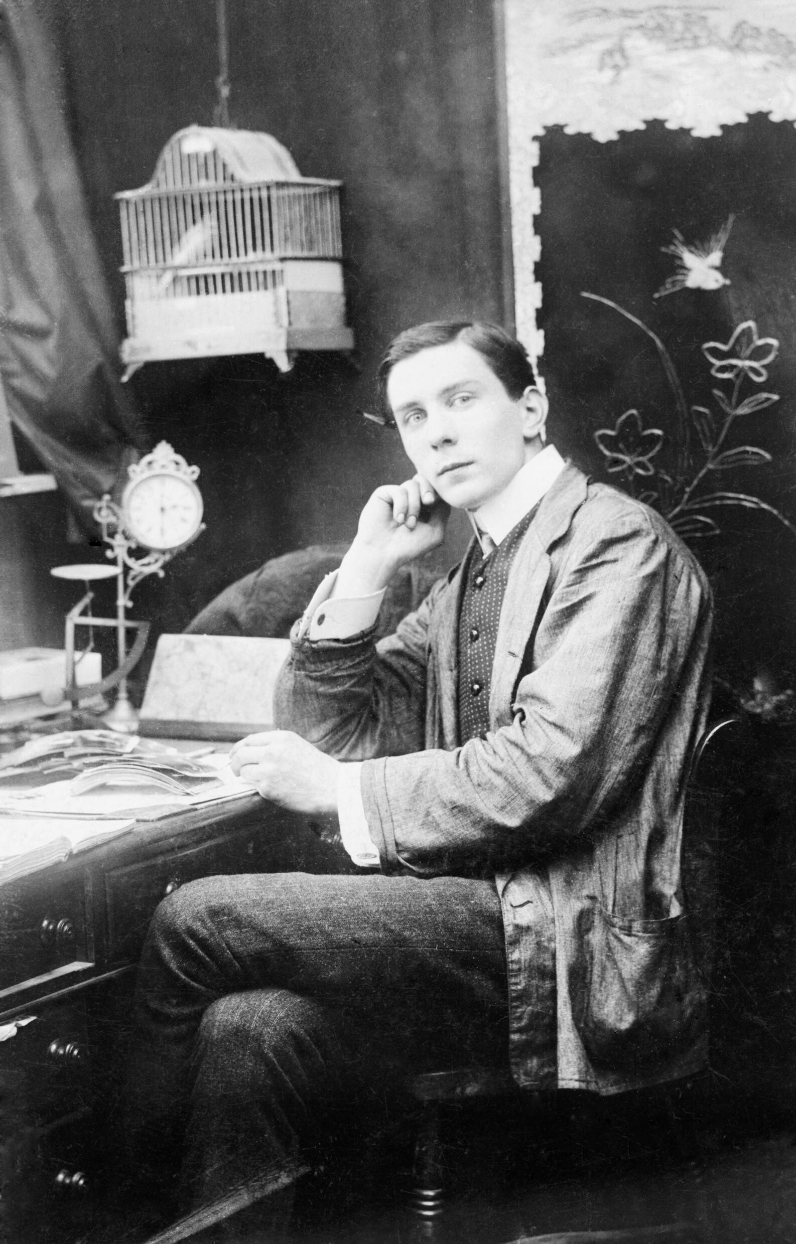 Geoffrey Malins 1886 - 1940 Portrait of the First World War correspondent and official cinematographer, Geoffrey Malins seated at a desk. This image was probably taken during his early career as a portrait photographer before 1910.